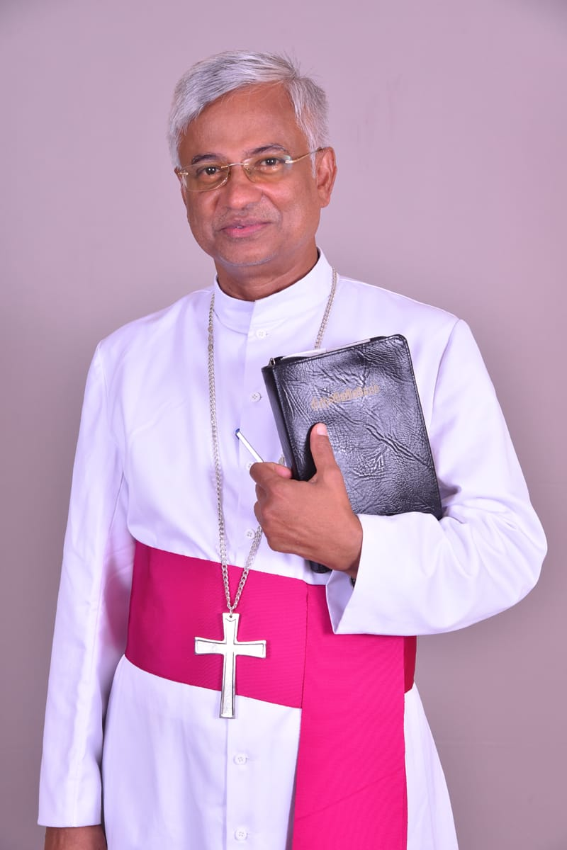 Bishop of Palayamkottai